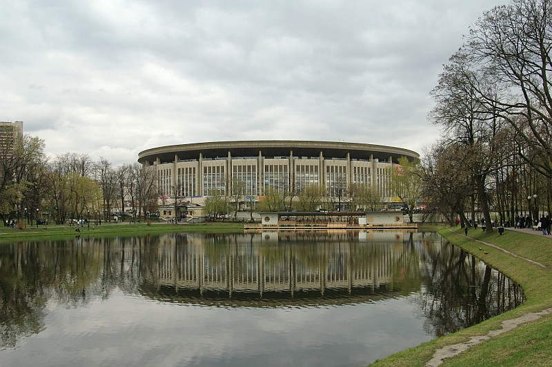 Exterior view of Olympic Stadium (Moscow)